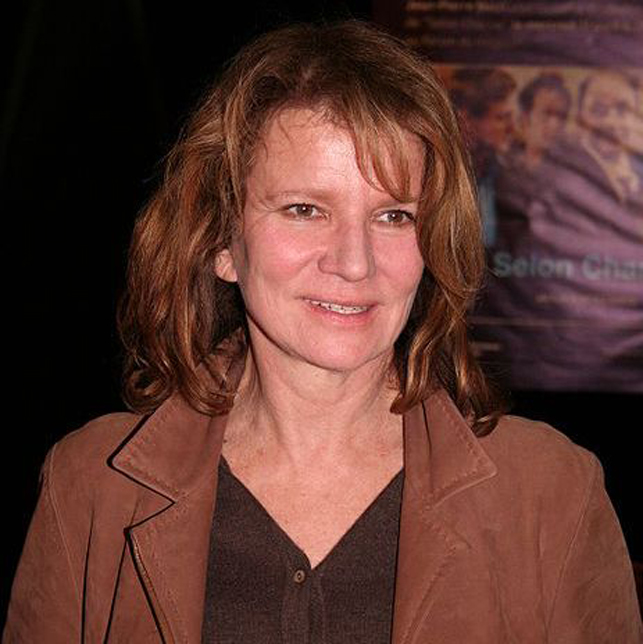 Meet-up with the film-maker Nicole Garcia and Jean-Pierre Bacri, for the release of the film Selon Charlie.